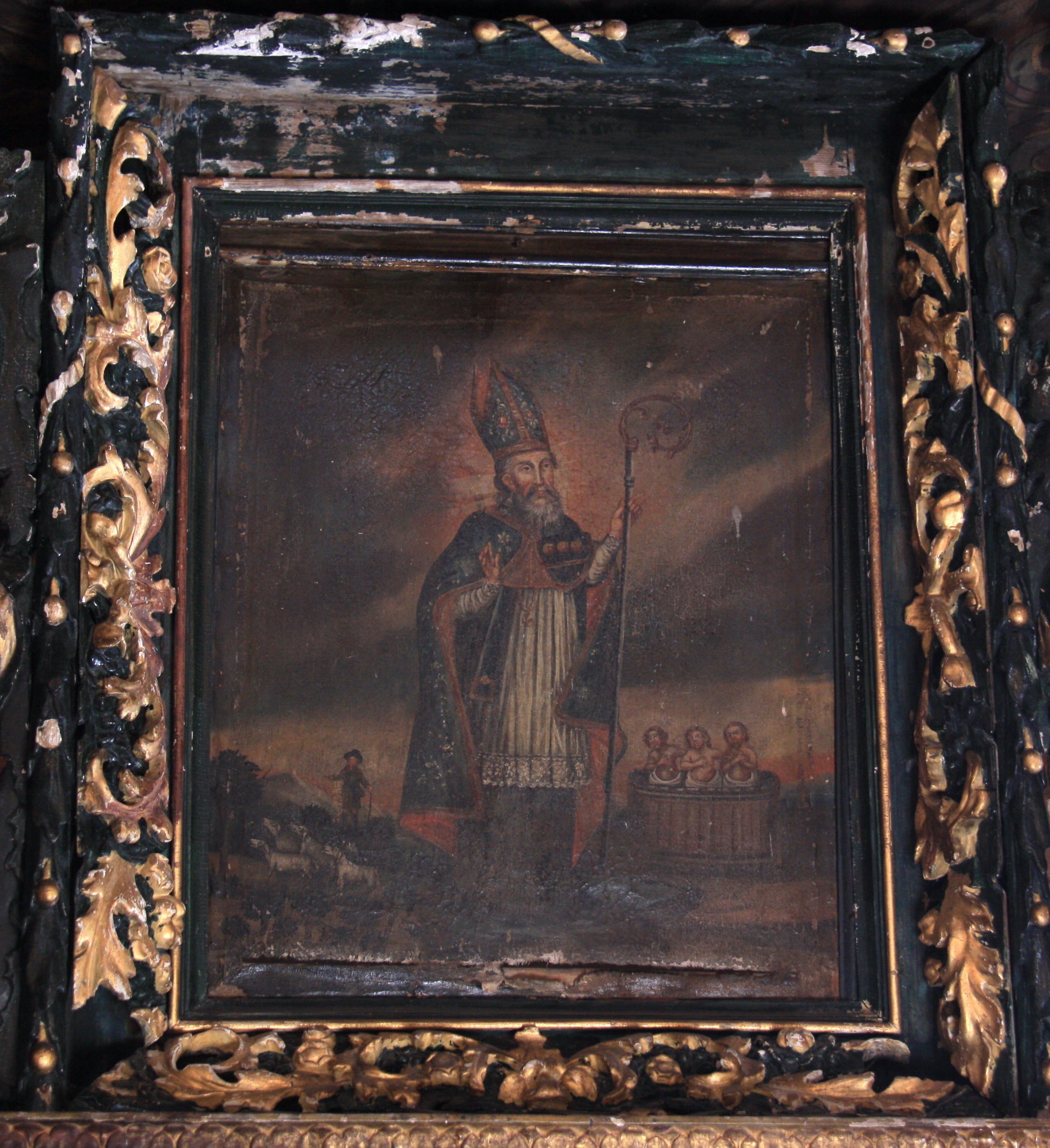 Chotelek, church of Sts. Stanislaus of Szczepanów - the image of the altar.